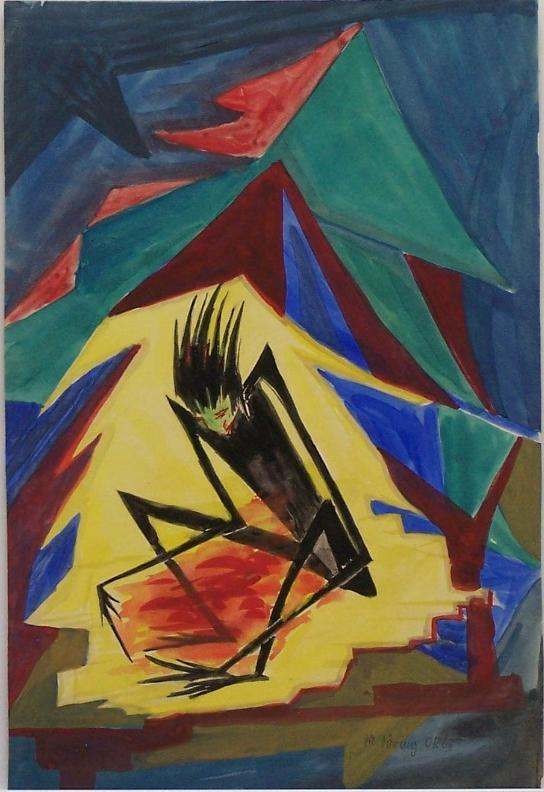 The Miser, mixed media, 21x32 cm, 1926 (WV-Nr.5579)